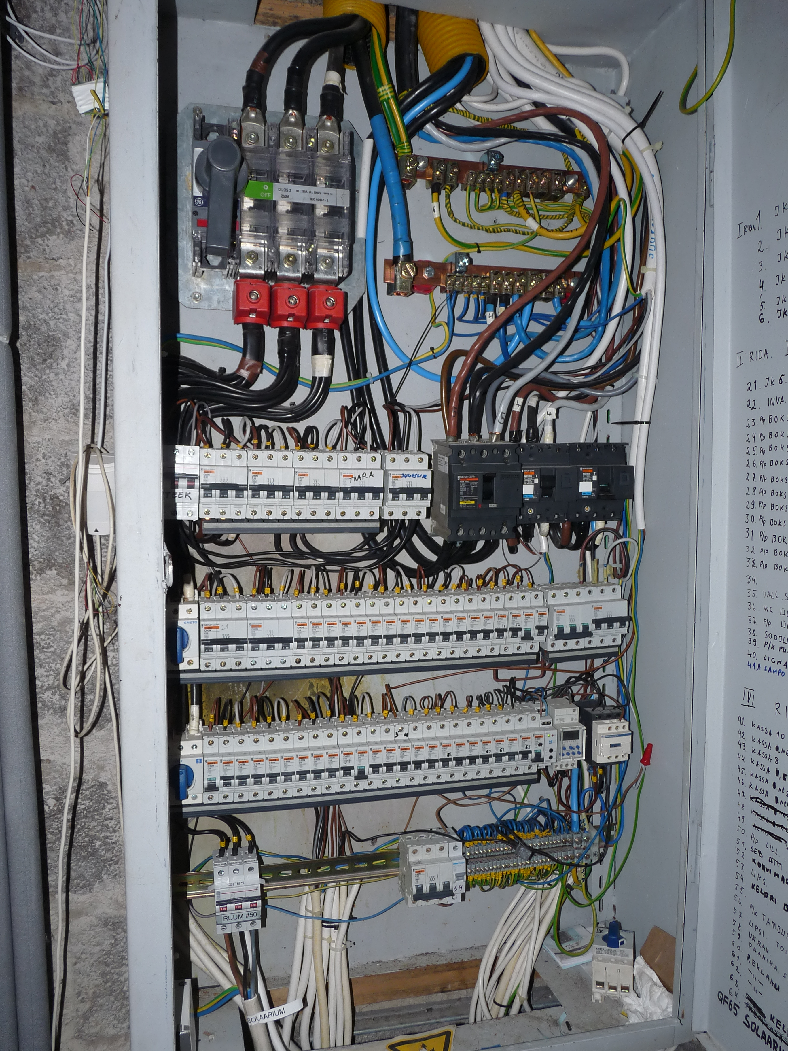 Its owner asked me to add new circuit. What my surprise was, when I saw this horror.